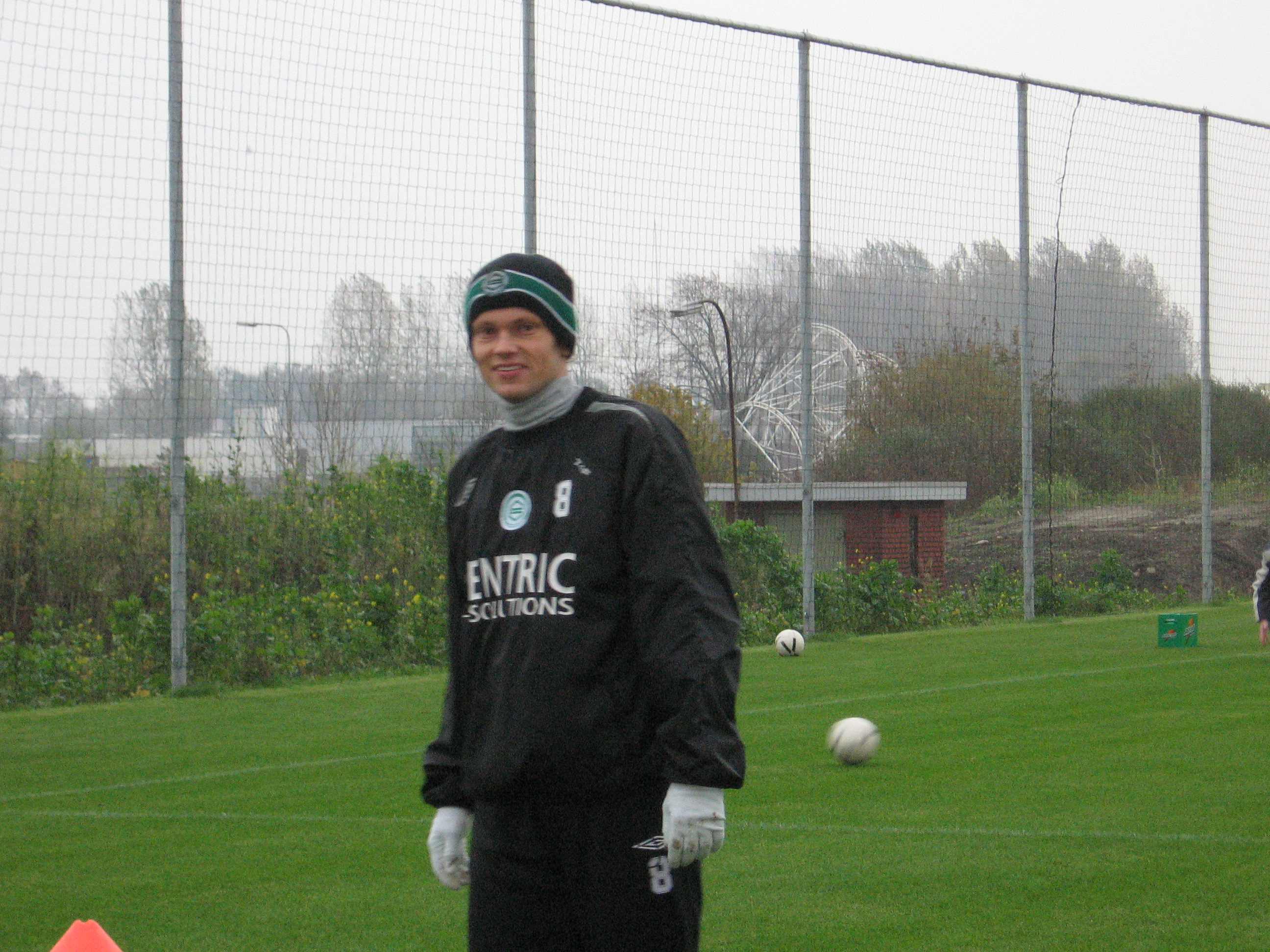 Erik Nevland, Norwegian football player (FC Groningen)